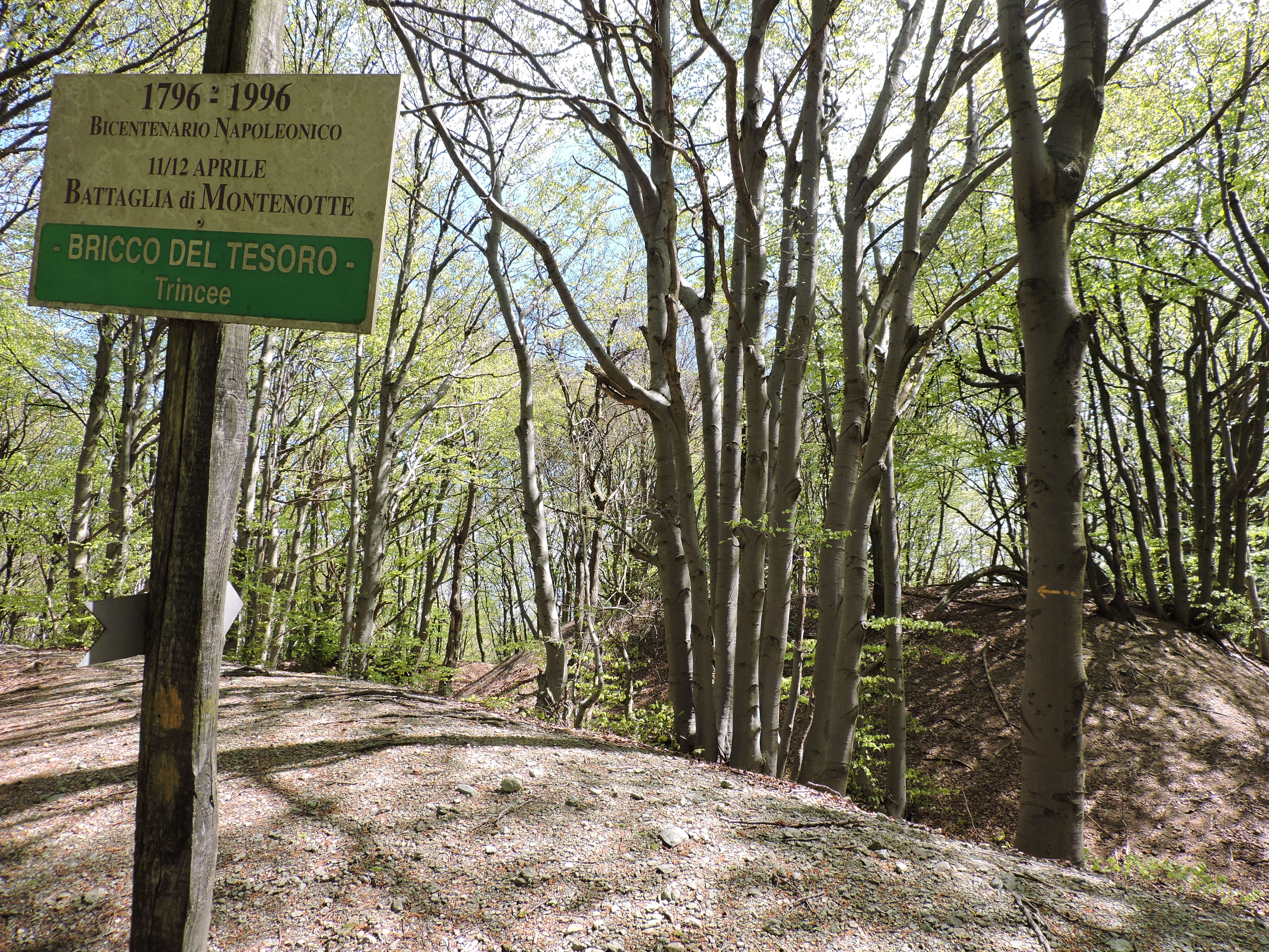 Sign on Bricco del Tesoro (SV, Italy)